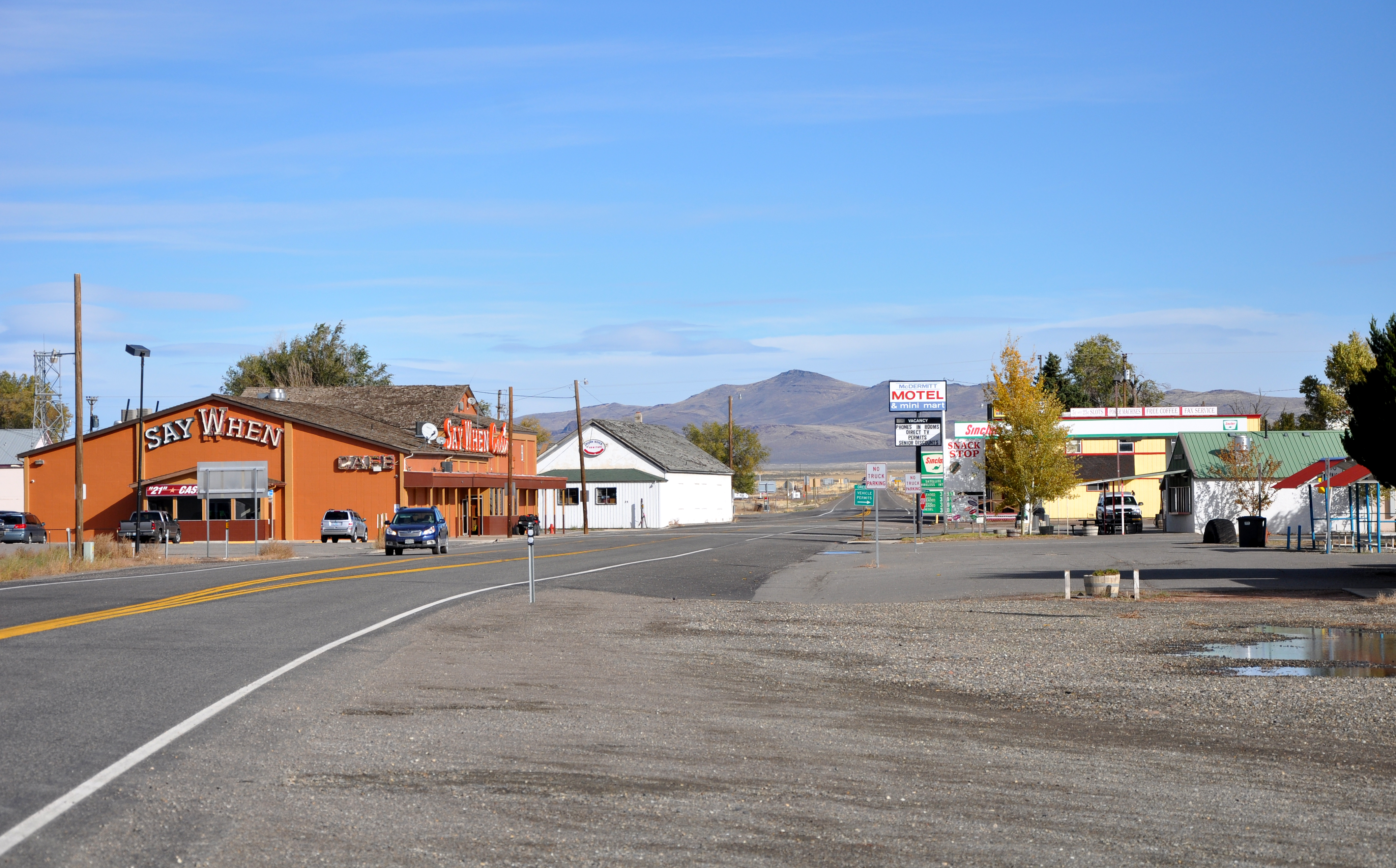 Looking north along U.S. Route 95 in McDermitt, on the boundary between the U.S. states of Nevada and Oregon